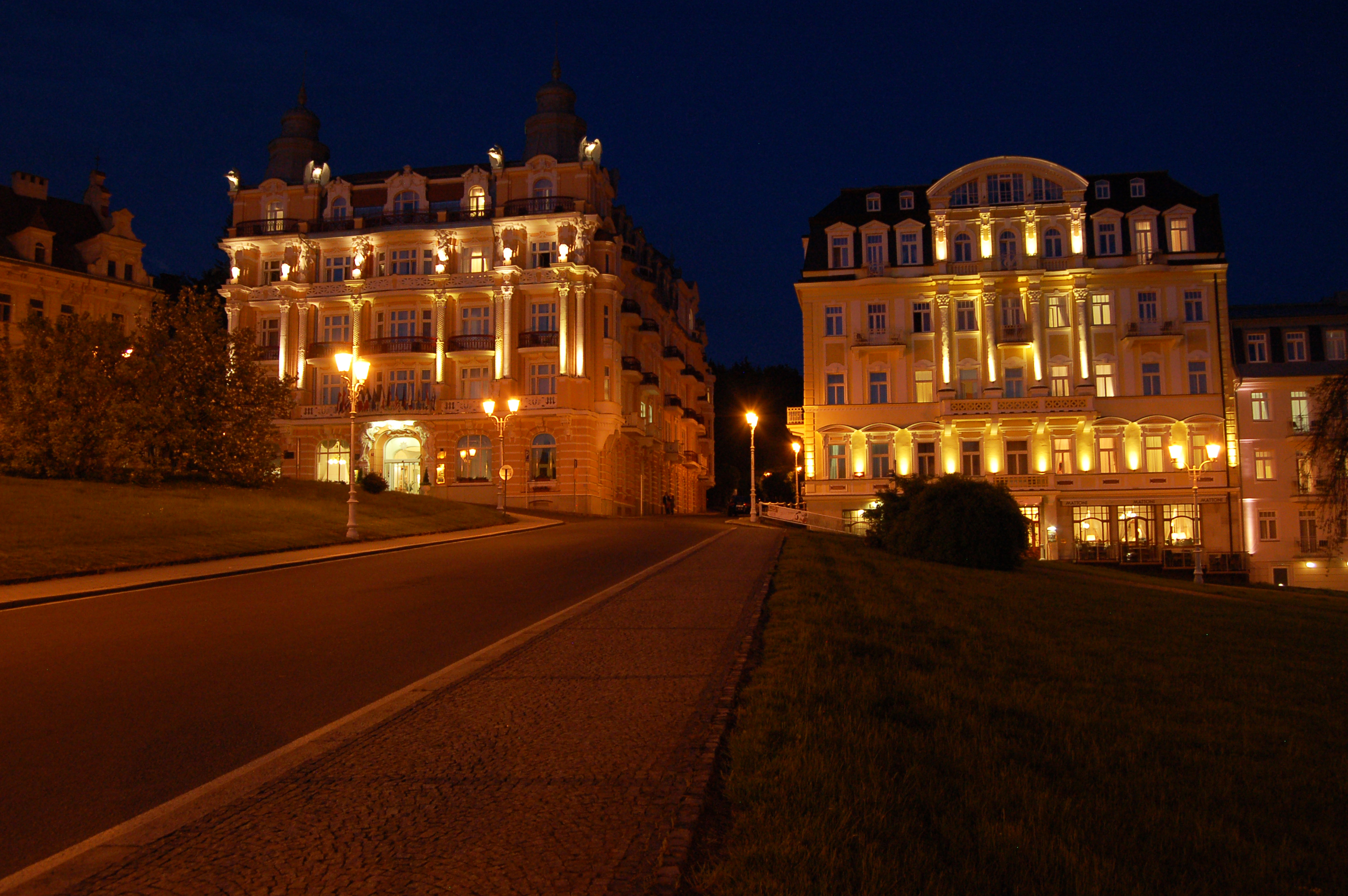 Mariánské Lázně - hotels Star and Imperial